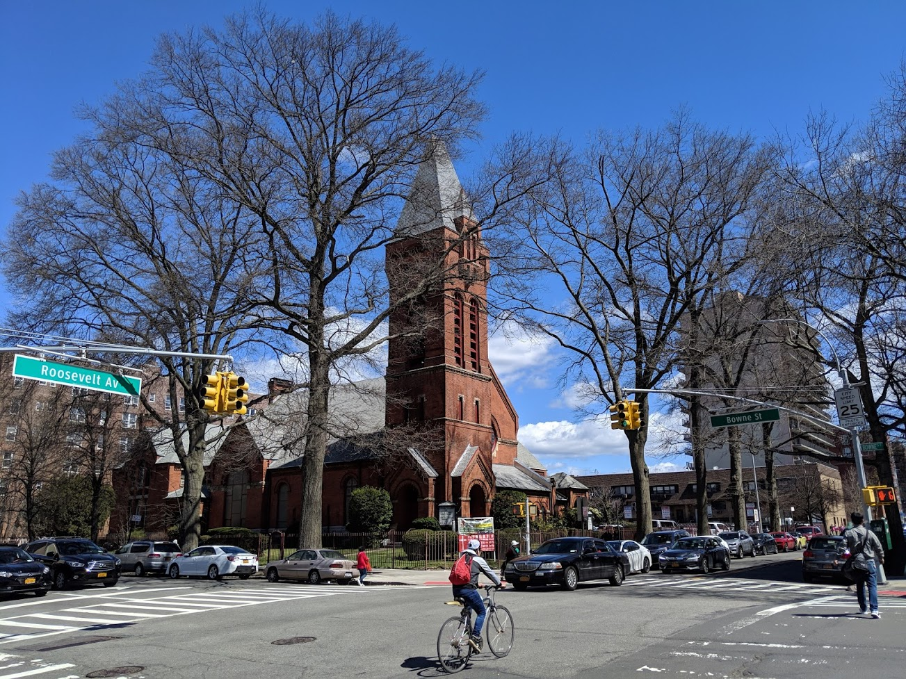 Protestant Reformed Dutch Church of Flushing (Bowne Street Community Church) is a 18th Century (B.1891-92) Romanesque Revival style, especially notable for its prominent corner tower, decorative brickwork, and opalescent stained-glass windows.